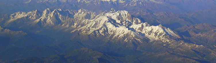 Mont Blanc Massif seen from WSW